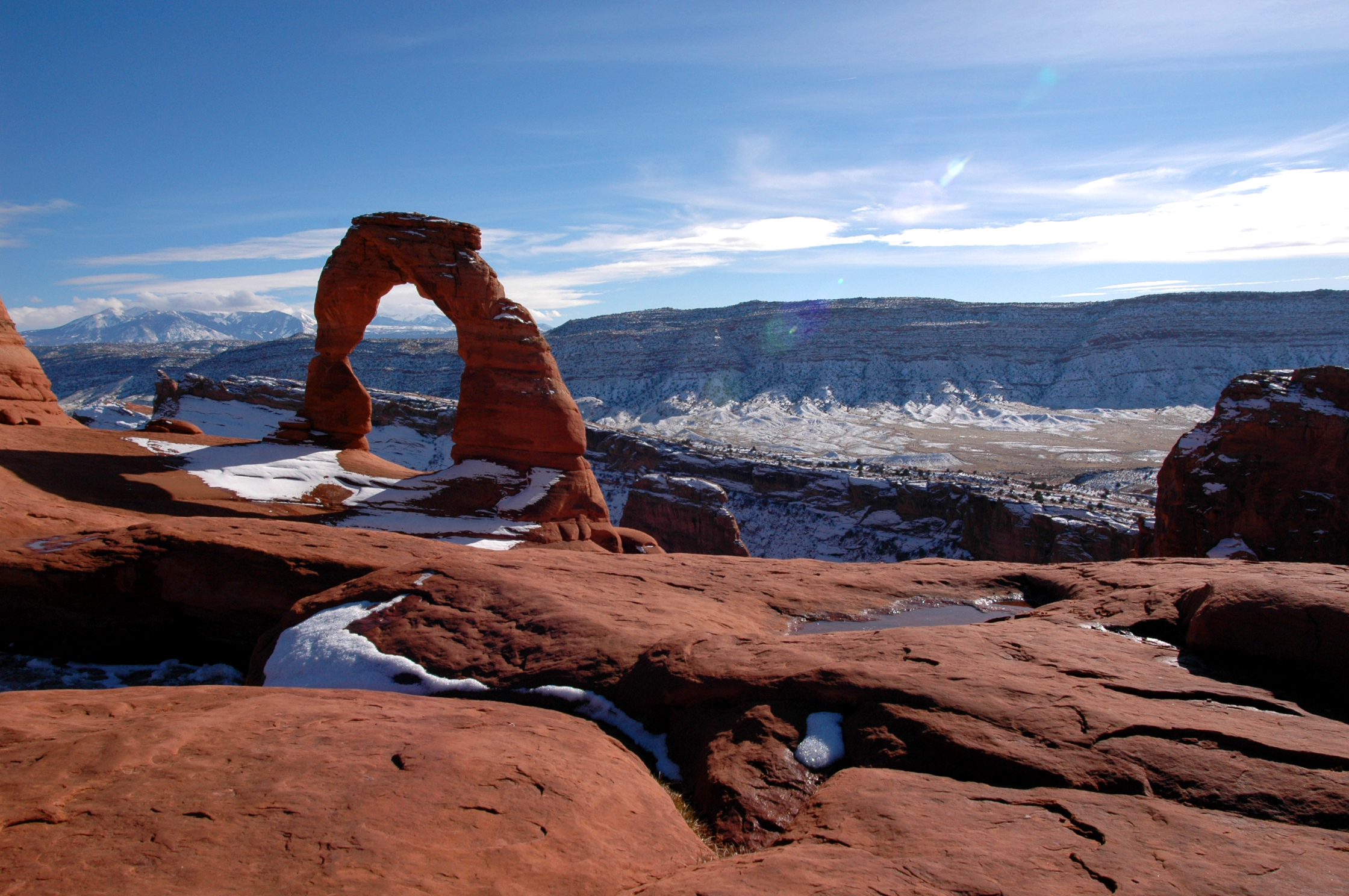 Arches National Park, Delicate Arch